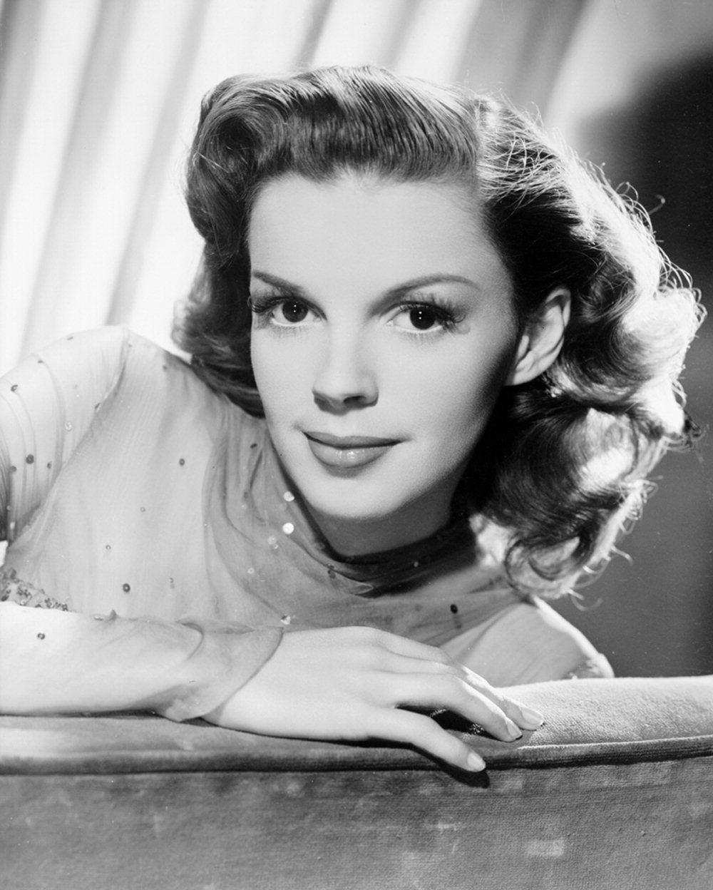 A publicity still of Judy Garland from MGM used in conjunction with promotion of The Harvey Girls (1946)